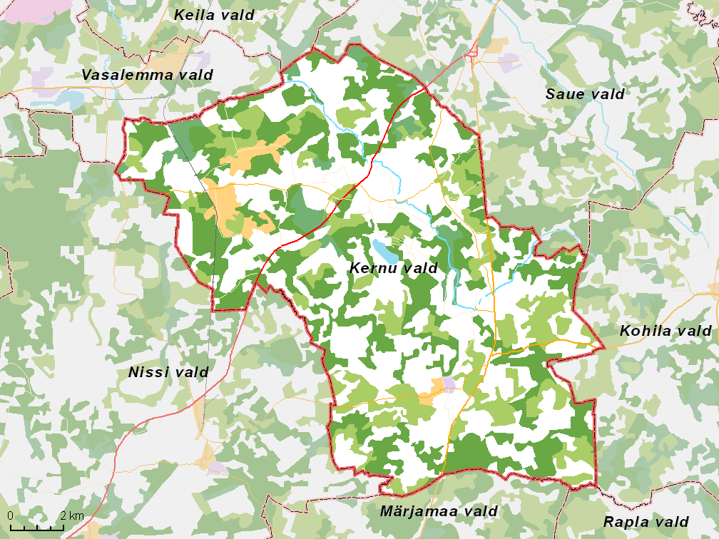 Map of municipality in Estonia